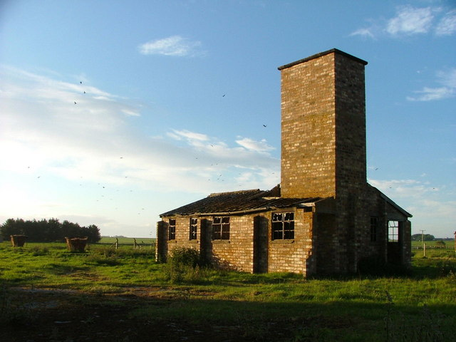 Abandoned WW2 building at Loans of Tullich One of the many abandoned WW2 buildings in this area.